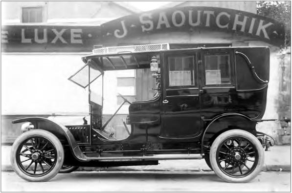 The earliest known photo of Carosserie Saoutchik, 1907. The car is Berliet 22CV.